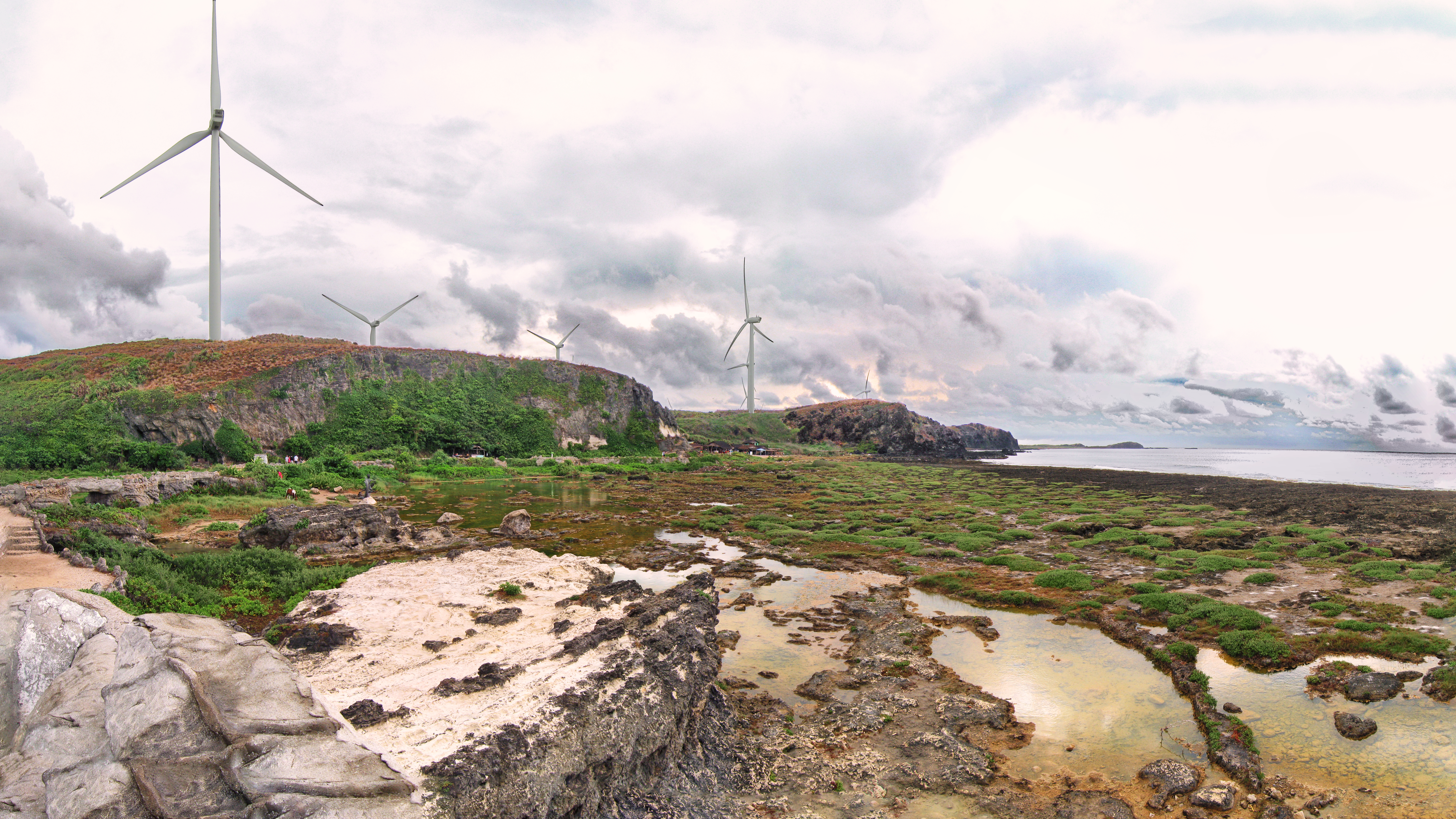 Kapurpurawan rock formation Burgos, Ilocos Norte, Philippines